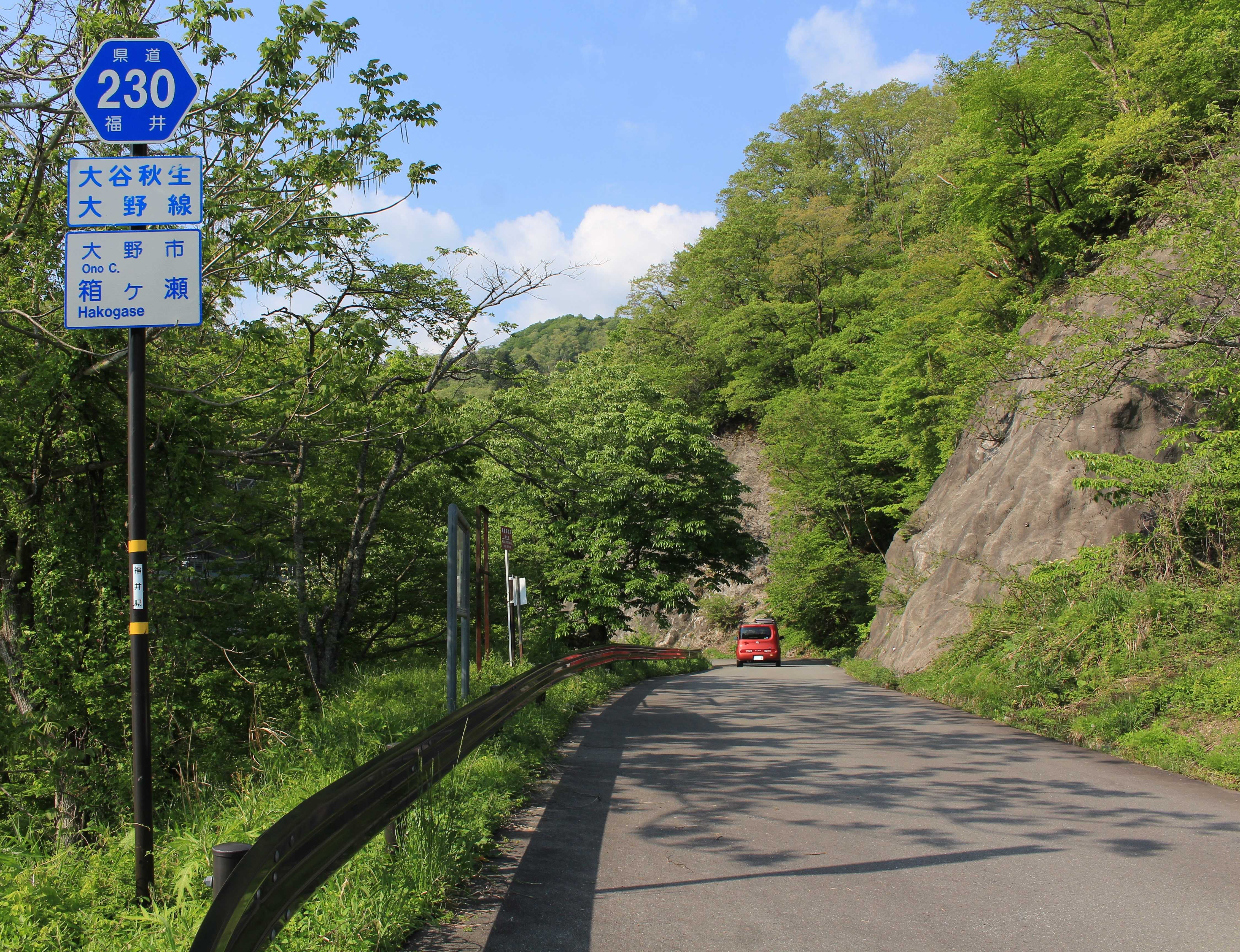 Fukui Prefectural Road Route 230 in Hakogase, Ōno city, Fukui prefecture, Japan.